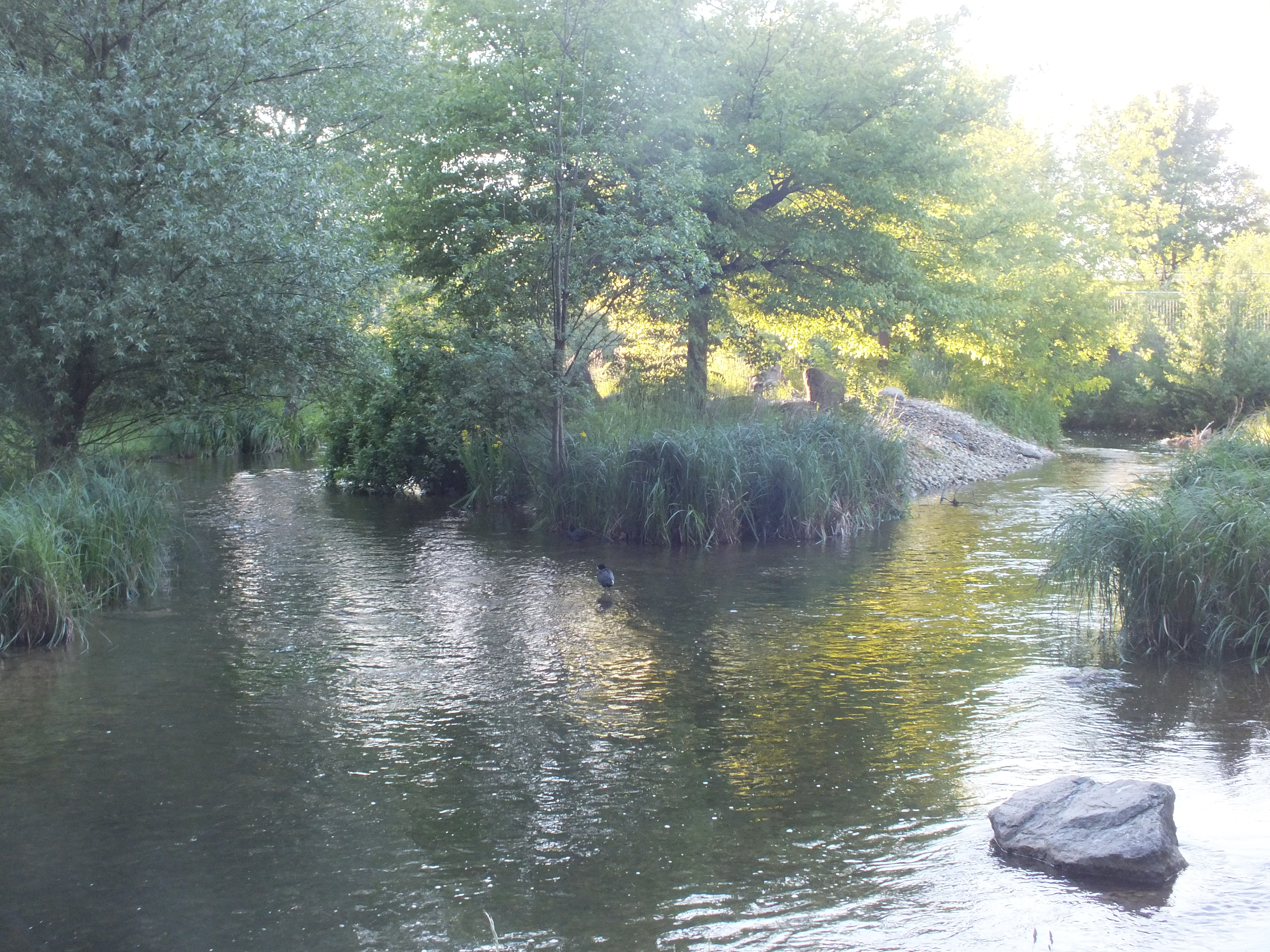 Petuelpark in Munich